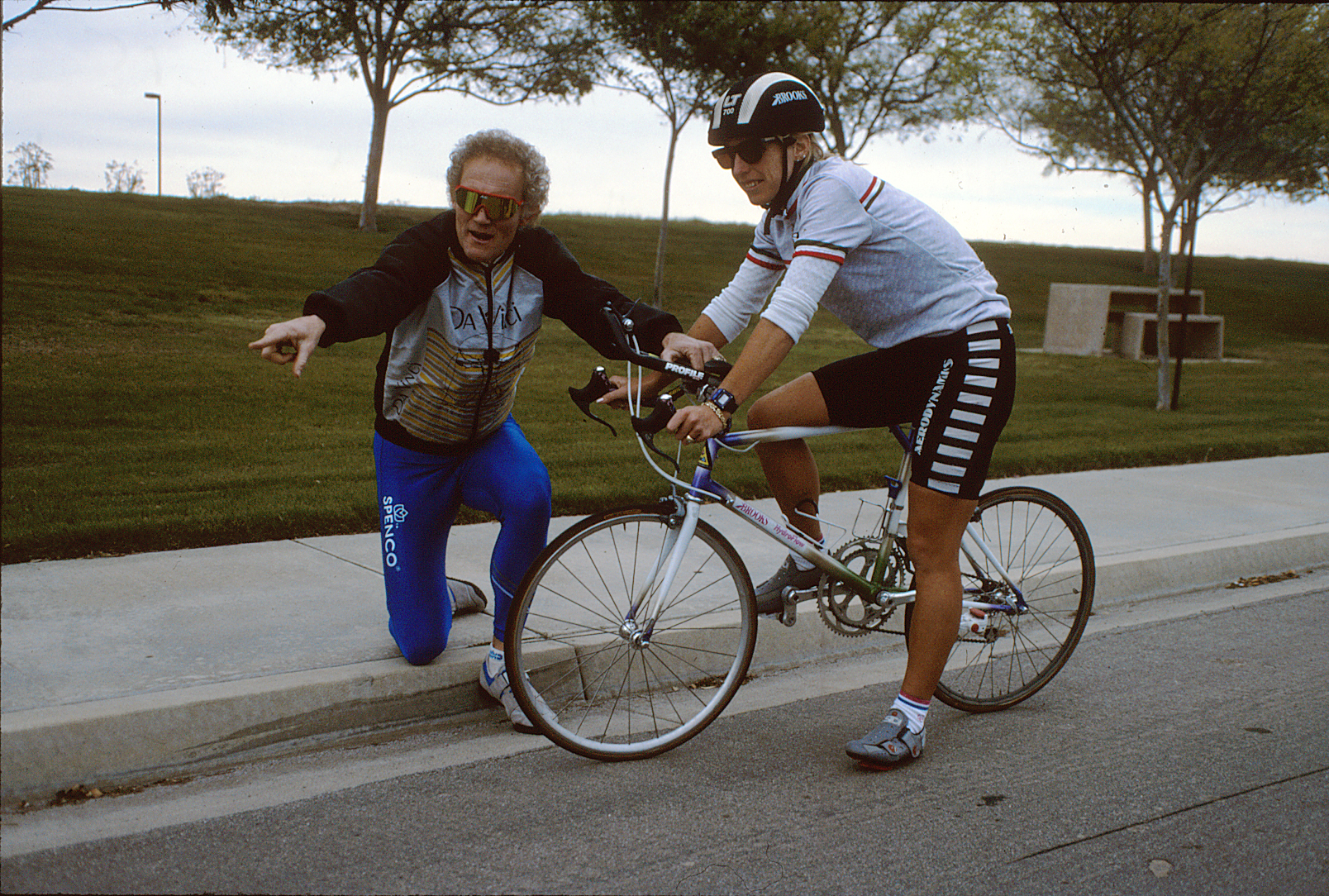 Cycling Master John Howard shows Paula Newby Fraser how to perform a "Hot Stop" on her road bike in "John Howard's Lessons in Cycling" produced in 1991 by New & Unique Videos of San Diego, California.